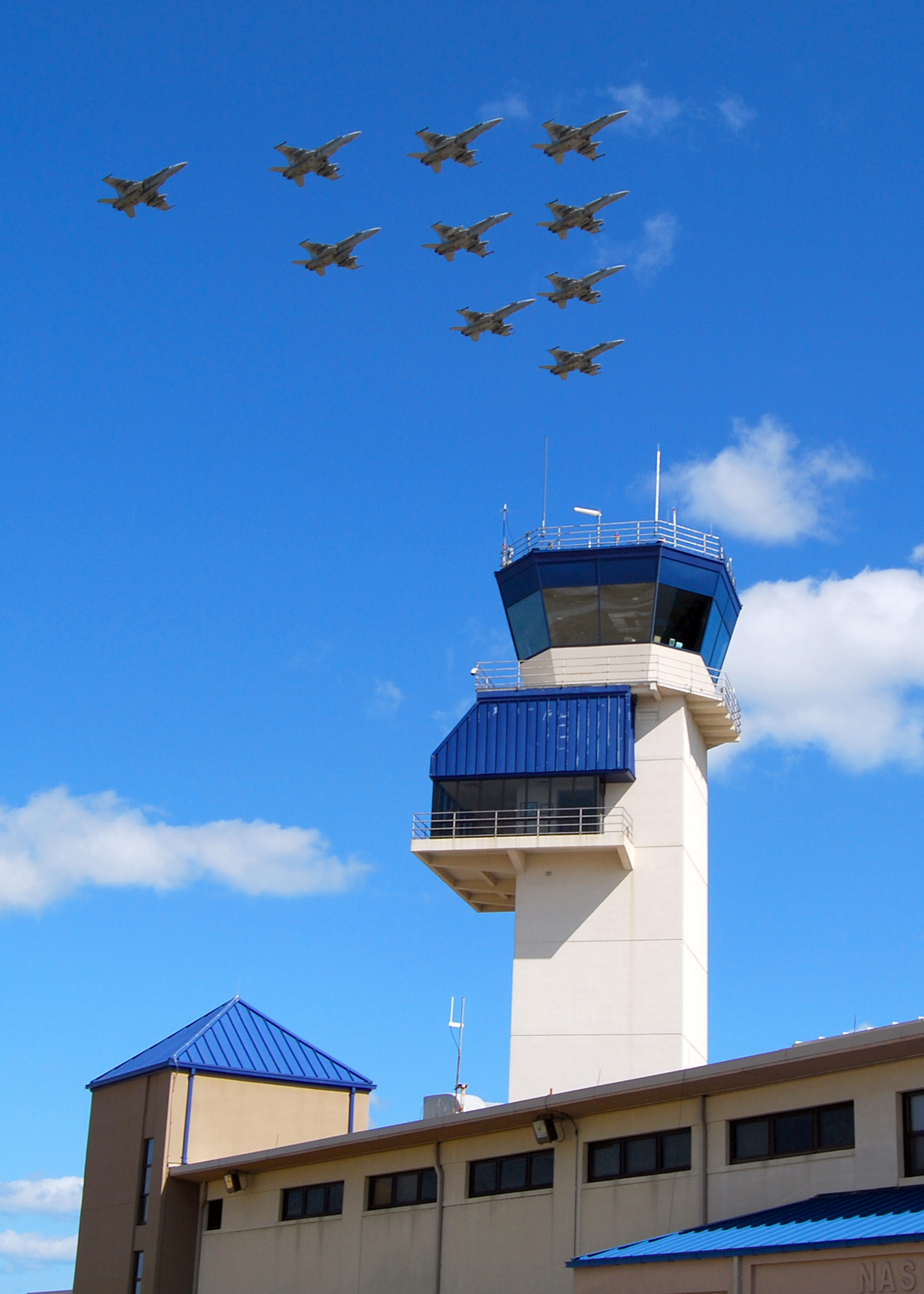 VIRGINIA BEACH, Va. (Sept. 30, 2007) - Aircraft from the “Sunliners” of Strike Fighter Squadron (VFA) 87 perform a squadron flyby over the control tower at Naval Air Station Oceana before reuniting with their families. VFA-87 returned from a six-month Western Pacific deployment aboard aircraft carrier USS Nimitz (CVN 68). U.S. Navy photo by Mass Communication Specialist 1st Class Edward I. Fagg (RELEASED)